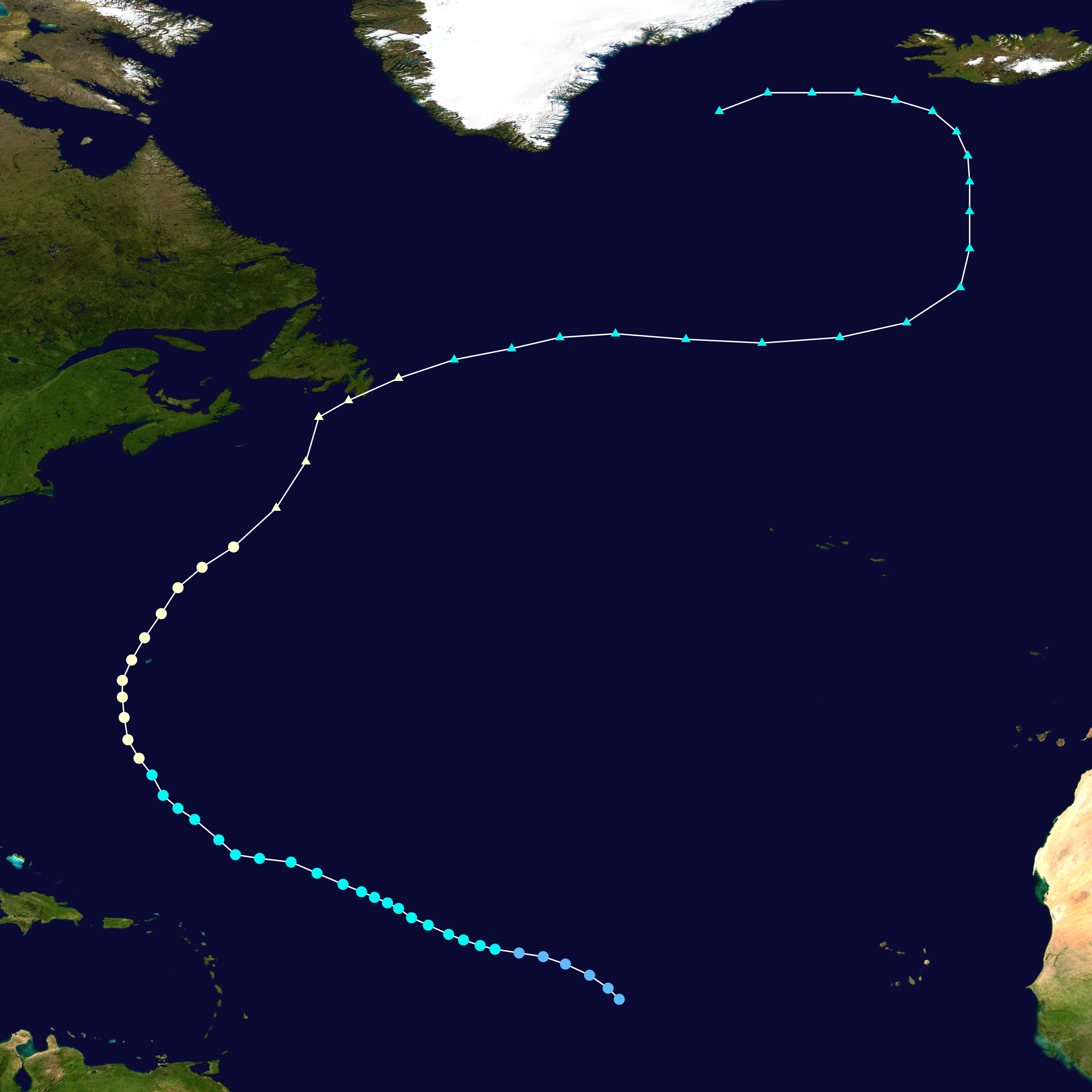 Track map of Hurricane Florence of the 2006 Atlantic hurricane season. The points show the location of the storm at 6-hour intervals. The colour represents the storm's maximum sustained wind speeds as classified in the Saffir–Simpson scale (see below), and the shape of the data points represent the nature of the storm, according to the legend below. Saffir–Simpson scale Tropical depression≤38 mph≤62 km/h Category 3111–129 mph178–208 km/h Tropical storm39–73 mph63–118 km/h Category 4130–156 mph209–251 km/h Category 174–95 mph119–153 km/h Category 5≥157 mph≥252 km/h Category 296–110 mph154–177 km/h Unknown Storm type Tropical cyclone Subtropical cyclone Extratropical cyclone / Remnant low / Tropical disturbance / Monsoon depression